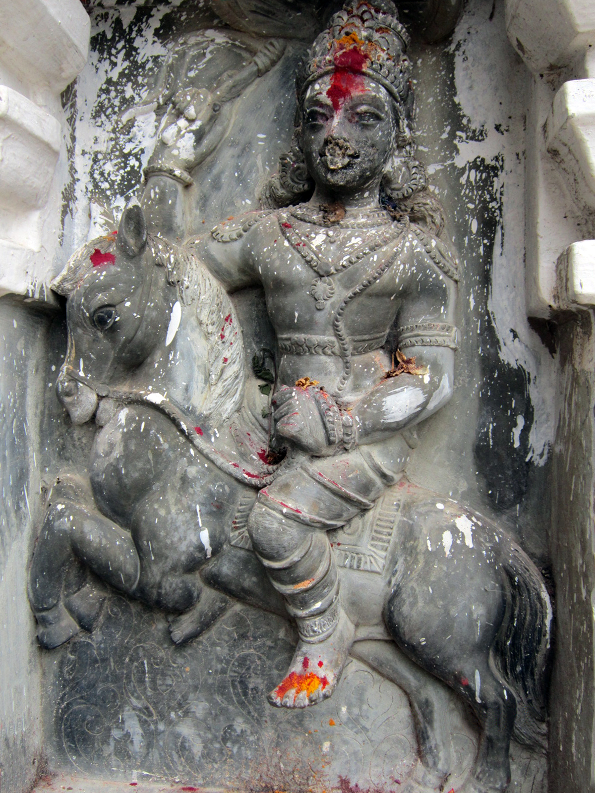 Sclupture of Kalki, in Hinduism he is the final incarnation of Vishnu in the current Mahayuga, foretold to appear at the end of Kali Yuga, the current epoch.